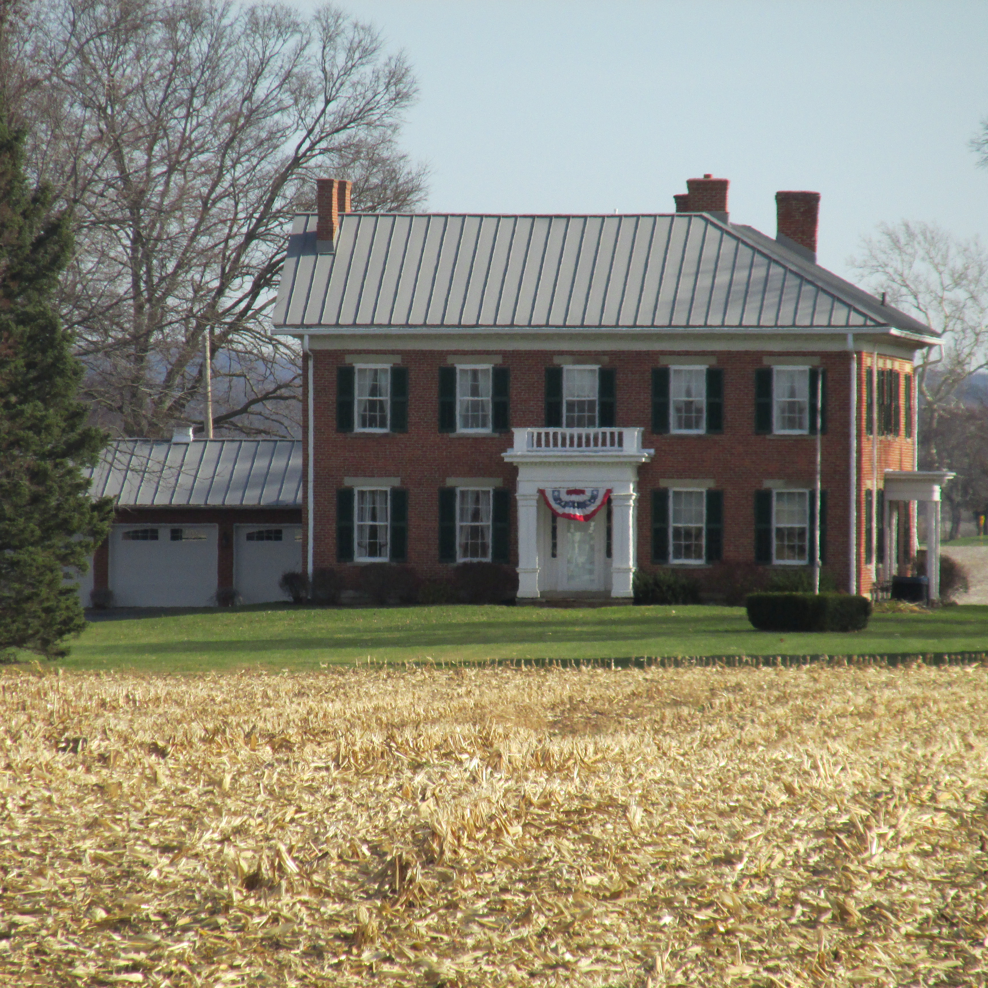 The Redlands House located in Pickaway County, Ohio.